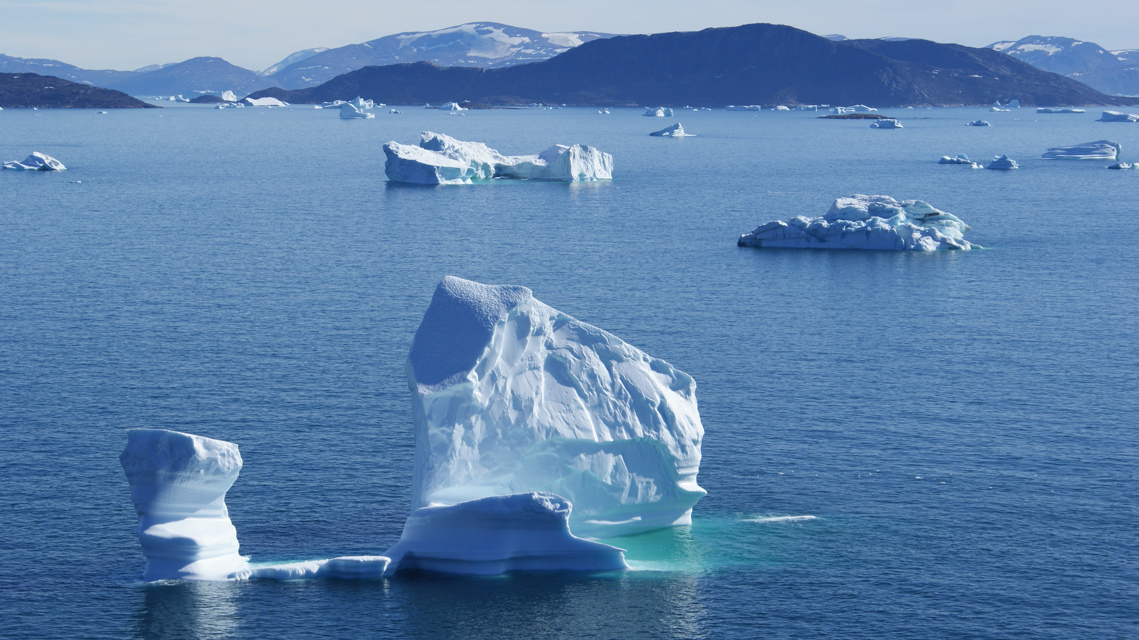 Timilersua Island, Sugar Loaf Bay, Upernavik Archipelago, Greenland. Photographed from the ridge of Nuussuaq Peninsula, from the north.